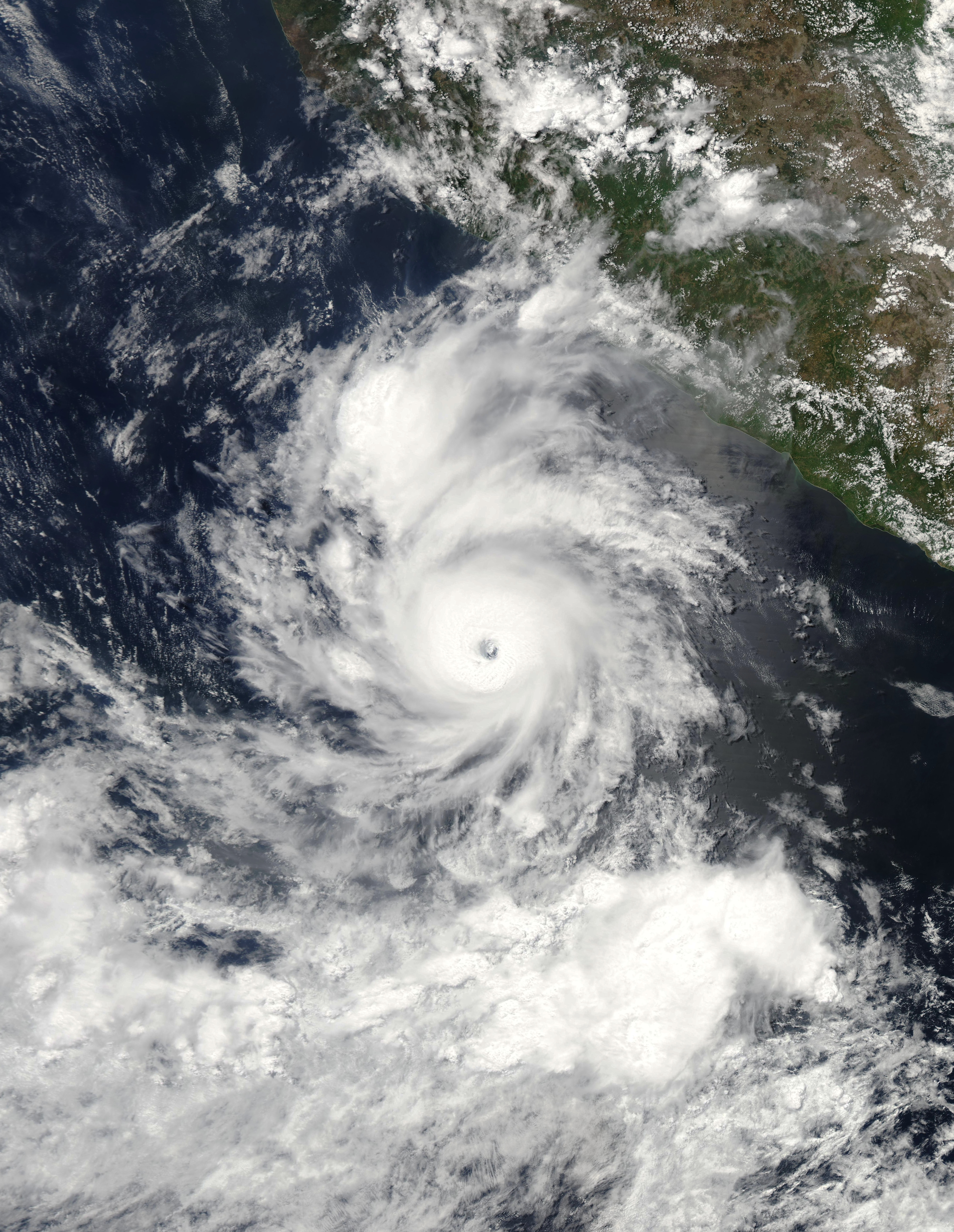 Hurricane Darby on June 25, 2010